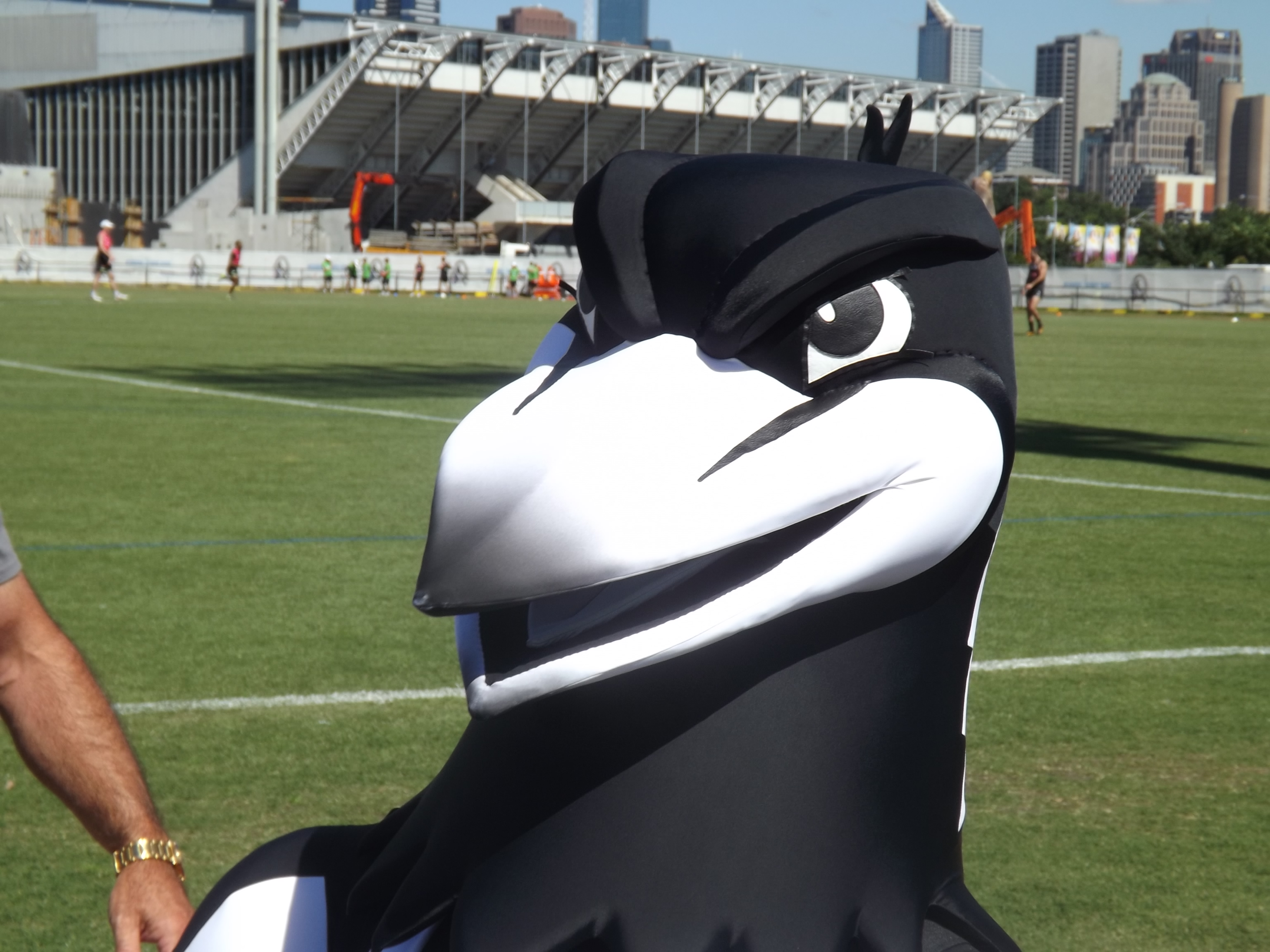 Jock "One Eye" McPie, the Collingwood mascot, during an open training session at Olympic Park, Melbourne.